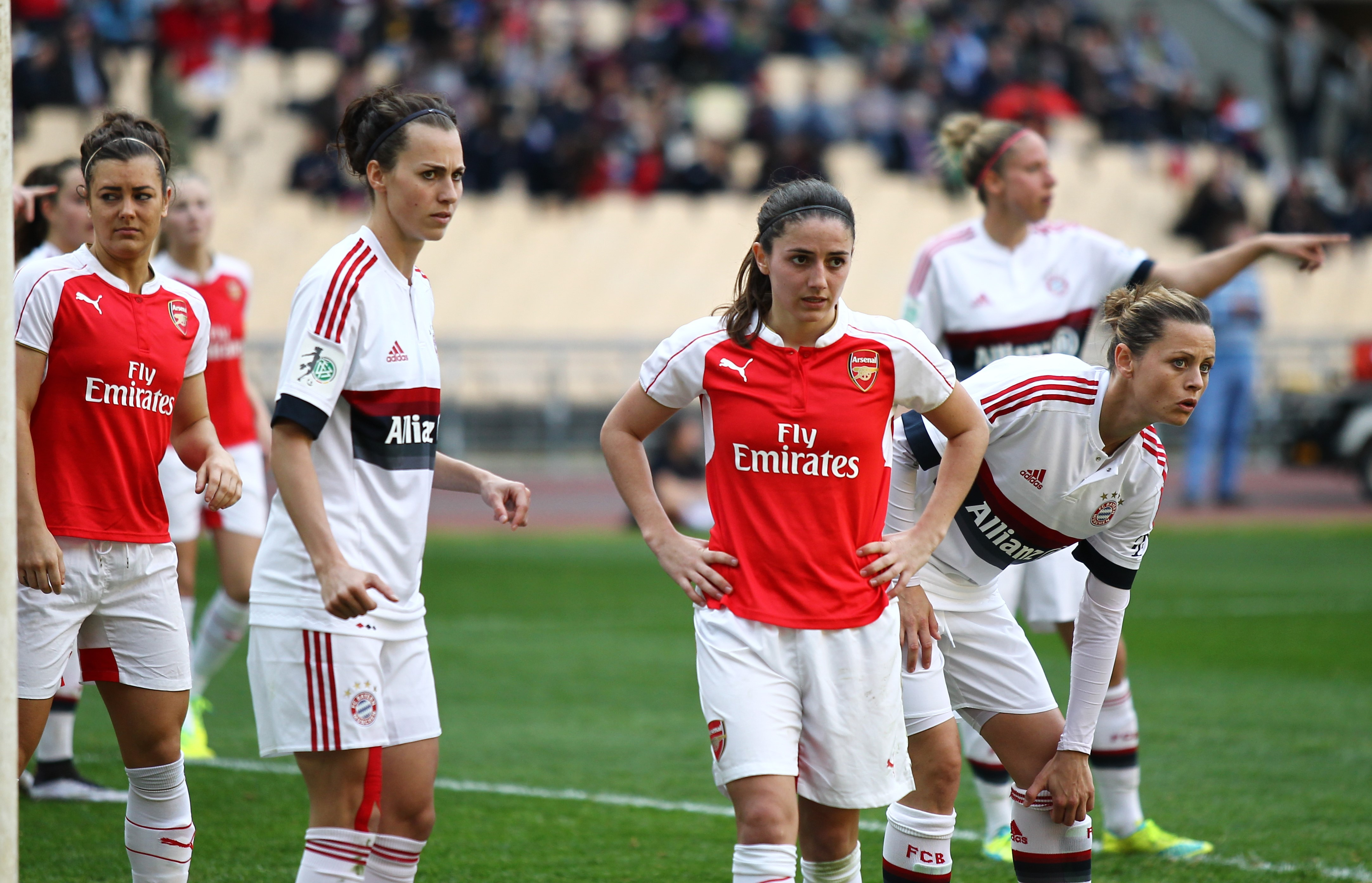 Jemma Rose and Danielle van De Donk of Arsenal Ladies during the game against Bayern Munich.